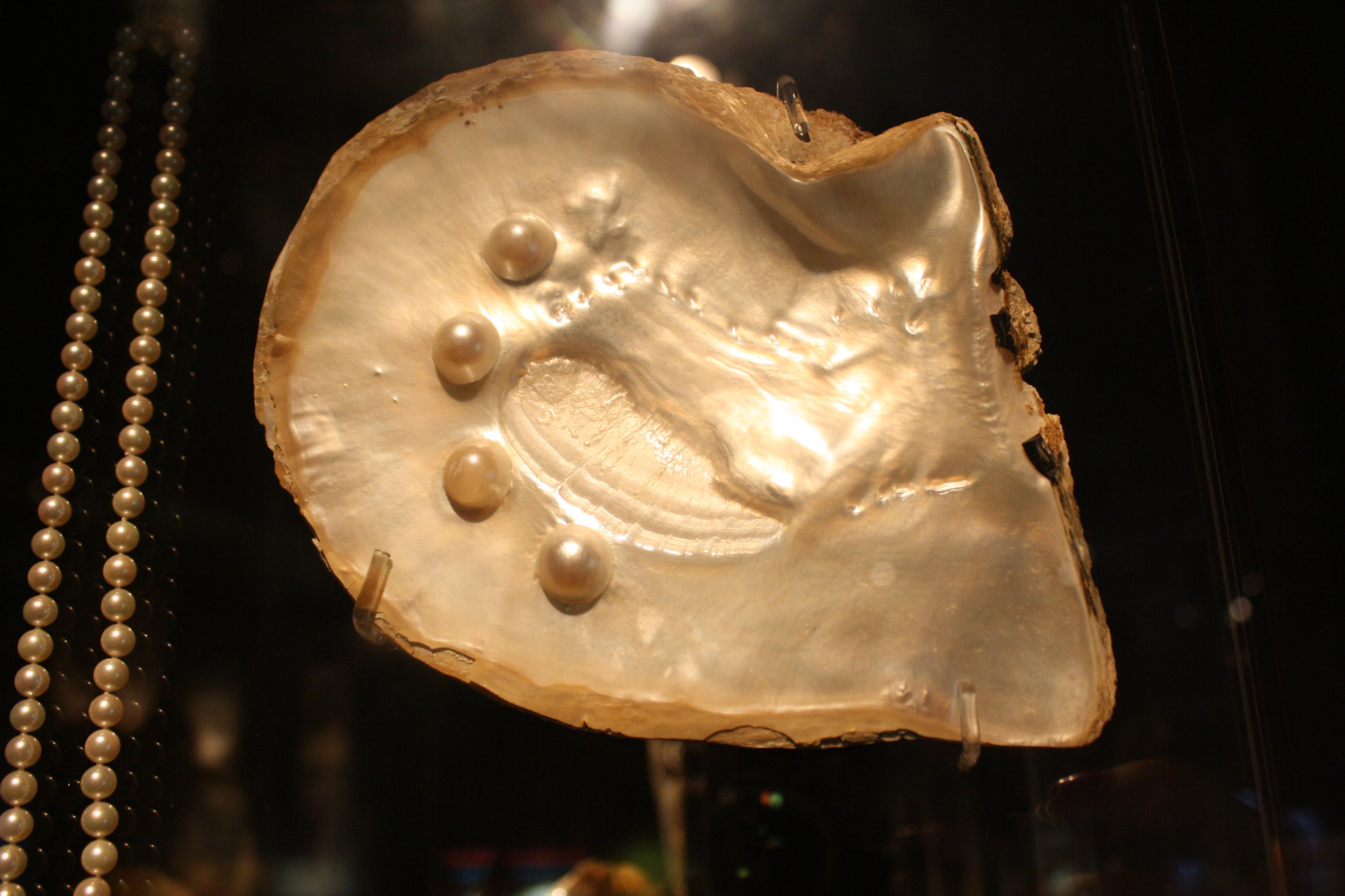 Pinctada Maxima (Gold Lip Oyster) HMNS 22881 Wikipedia Loves Art at the Houston Museum of Natural Science This photo of item # [1] at the Houston Museum of Natural Science was contributed under the team name "The_Wookies" as part of the Wikipedia Loves Art project in February 2009. Houston Museum of Natural Science The original photograph on Flickr was taken by andytang20—please add a comment to the original Flickr page whenever a use has been made on Wikipedia or another project. Project galleries on Flickr: this institution, this team